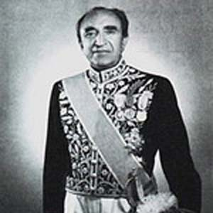 Asadollah Alam, prime minister of Iran from 1962 to 1964.